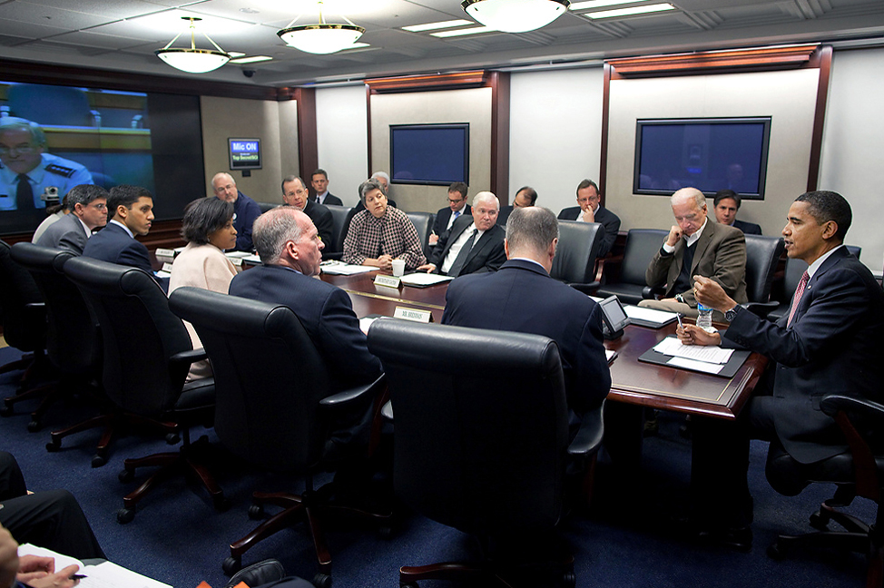 President Barack Obama meets in the Situation Room of the White House on the U.S. response to the earthquake in Haiti. Also present are Vice President Joe Biden, Chairman of the Joint Chiefs of Staff Michael Mullen, Secretary of Homeland Security Janet Napolitano, Secretary of Defense Robert Gates, and Press Secretary Robert Gibbs. USSOUTHCOM commander Gen. Douglas Fraser is on the video screen.